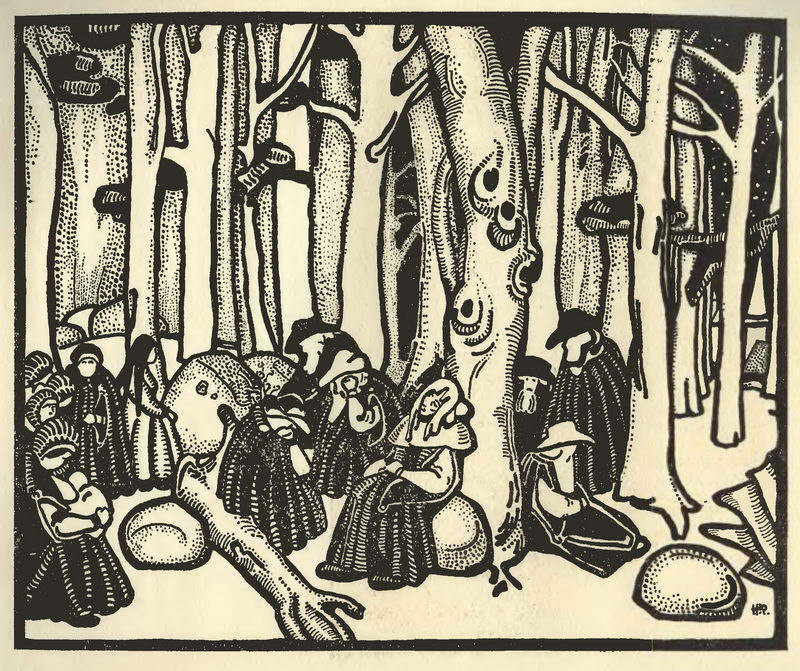 A print by Nicholas Roerich published 1906, based on Maurice Maeterlinck's The Blind.